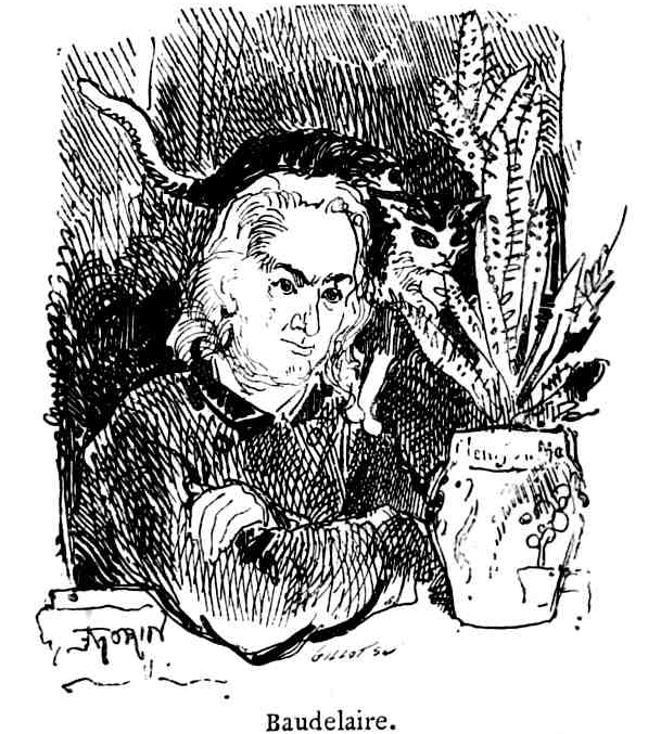 Baudelaire, after a sketch by Edmond Morin, engraved by Gillot, published in Les Chats by Champfleury (Rothschild, 1868).